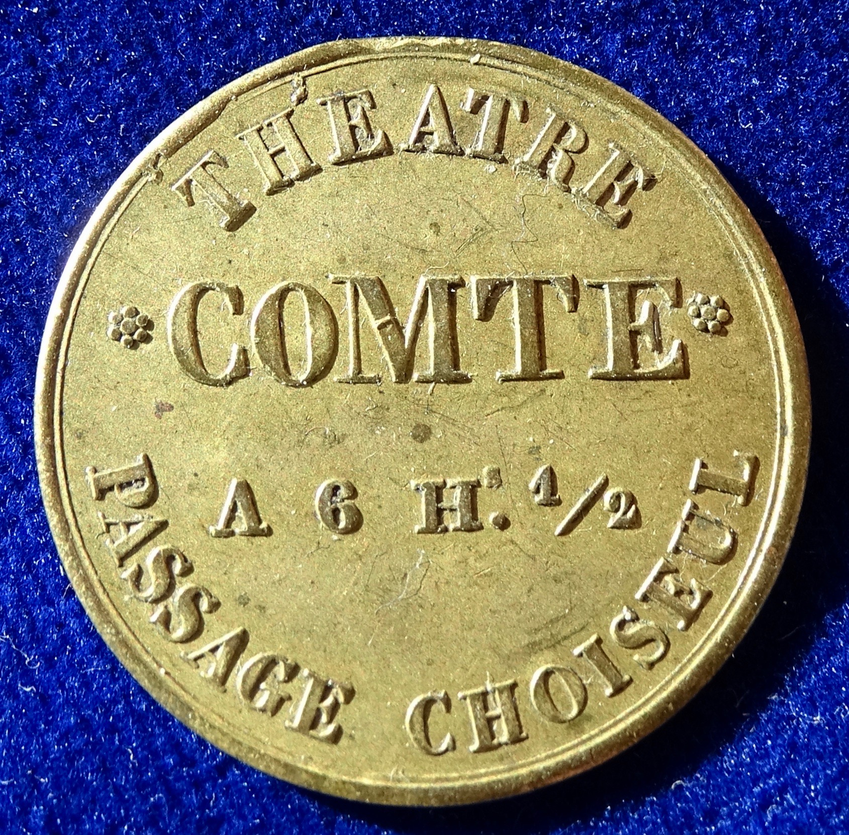 Paris, France, Admission Jeton Token Théâtre Comte, Passage Choiseul, ND (1827 - 1846). Bronze, d. = 27 mm. Theatre admission coin for a family of 4. Louis Apollinaire Christien Emmanuel Comte, Parisian magician, 1778 Geneva, Switzerland - 1859 Rueil-Malmaison, France 4 lines: "THEATRE * COMTE * A 6 HS. 1/2 PASSAGE CHOISEUL"/ 5 lines: "ABONNEMENT DE FAMILLE BON POUR 4 PERSONNES". Condition: Nice VERY FINE*.